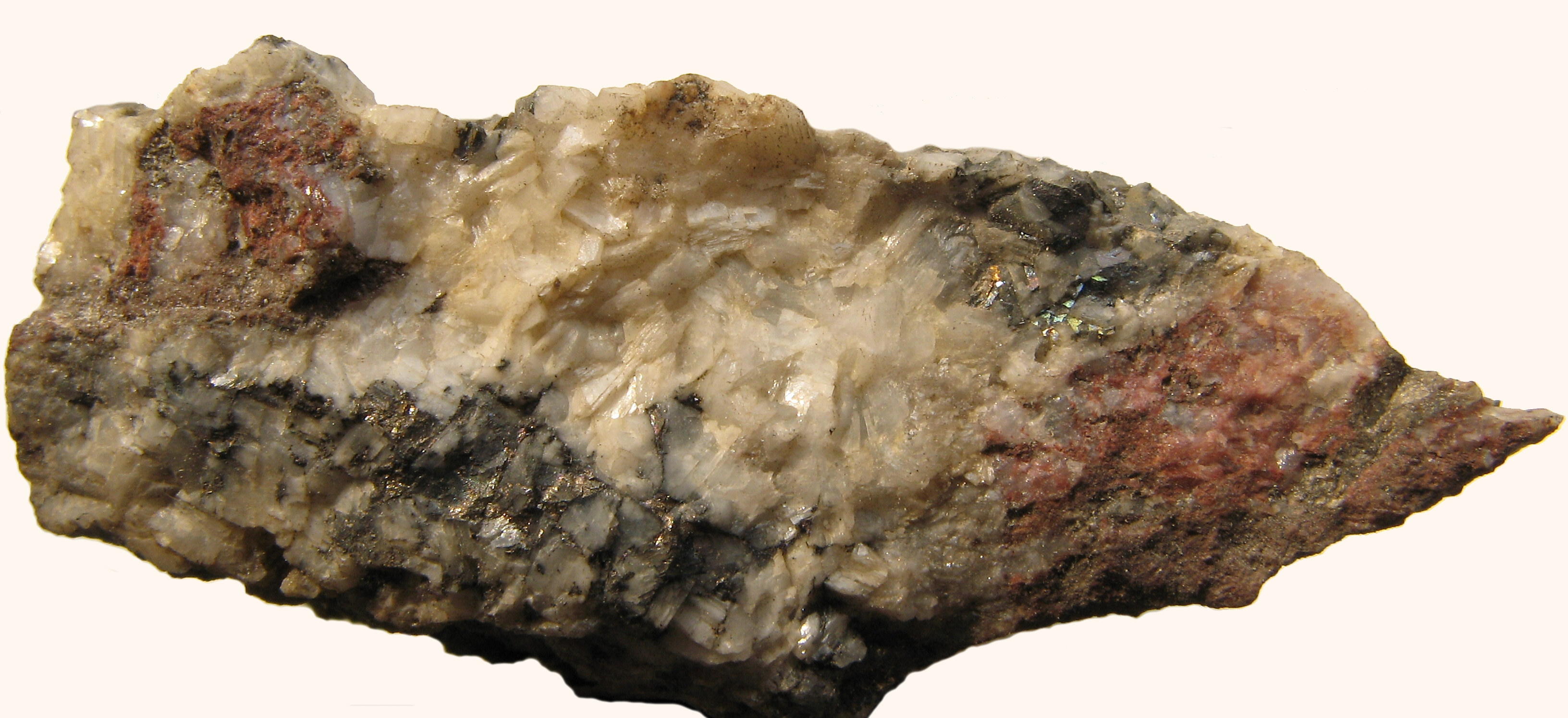 Stibiopalladinite Locality: Tilkerode, Harz, Germany Exposed in the Mineralogical Museum of University Bonn, Germany